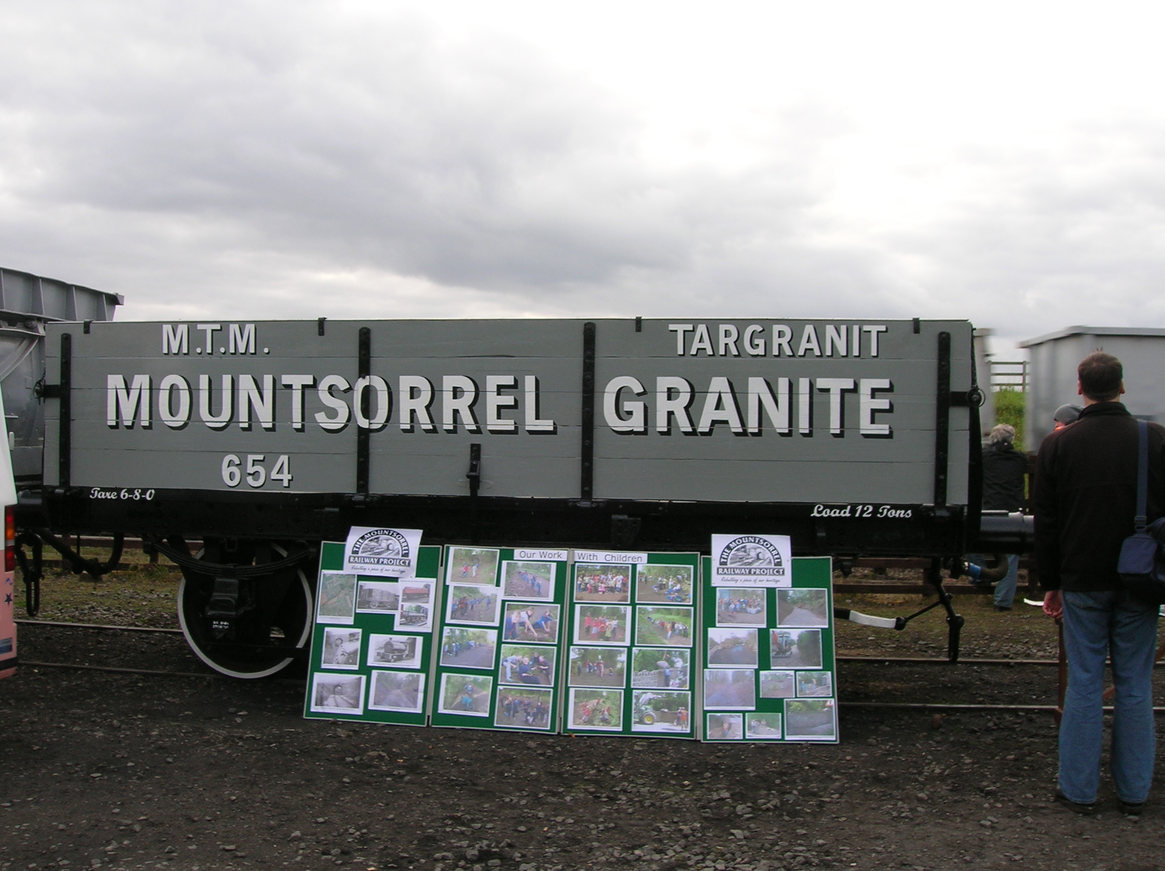 The new Mountsorrel Railway's first wagon project, numbered 654.